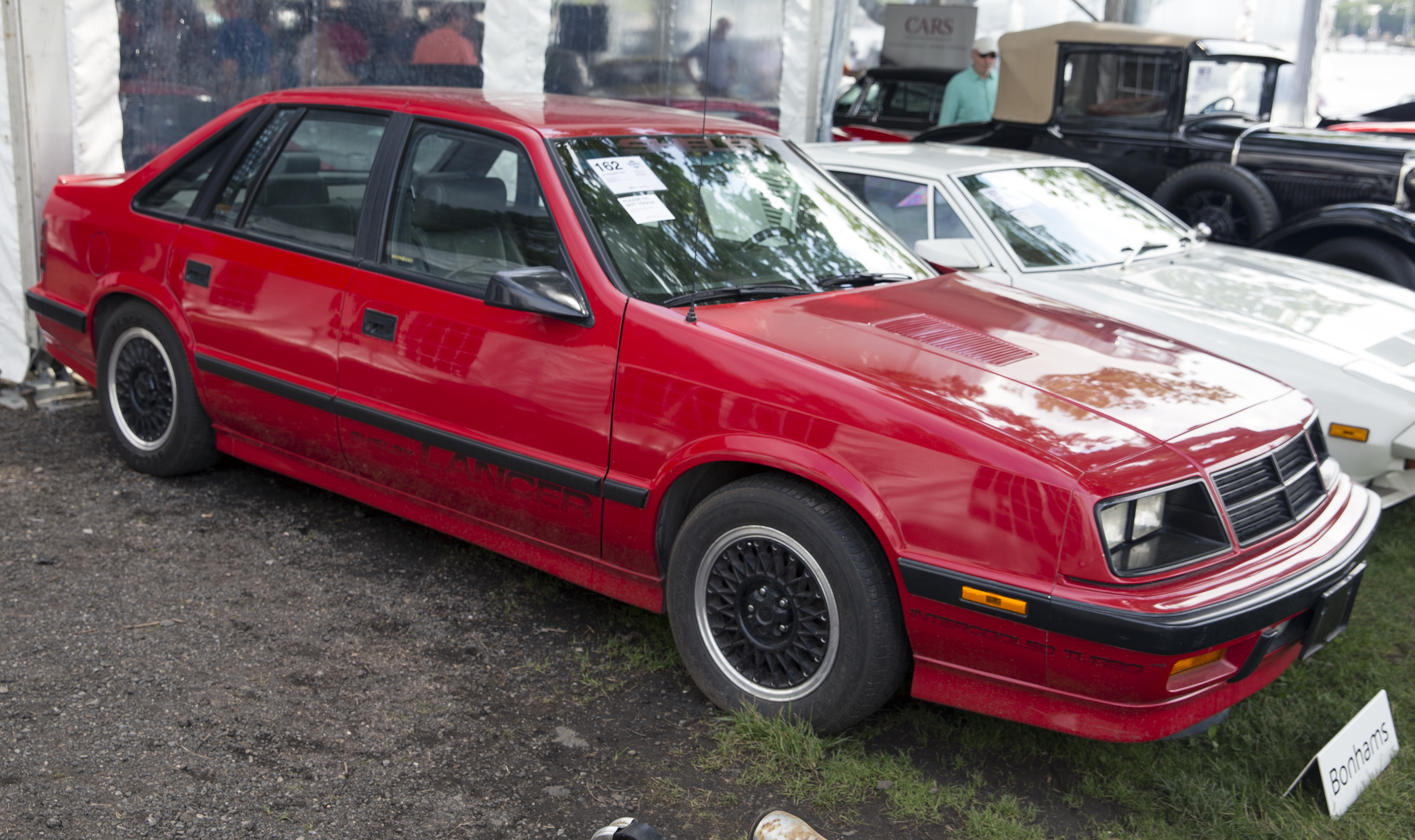 A 1987 Dodge Lancer Shelby, number 1 of 800 built. From Carroll's personal collection and offered for sale at the 2018 Greenwich Concours d'Elegance. Three-speed auto.